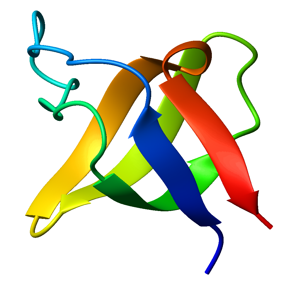 Ribbon diagram of the SH3 domain, alpha spectrin, from chicken. Made with MOLMOL.